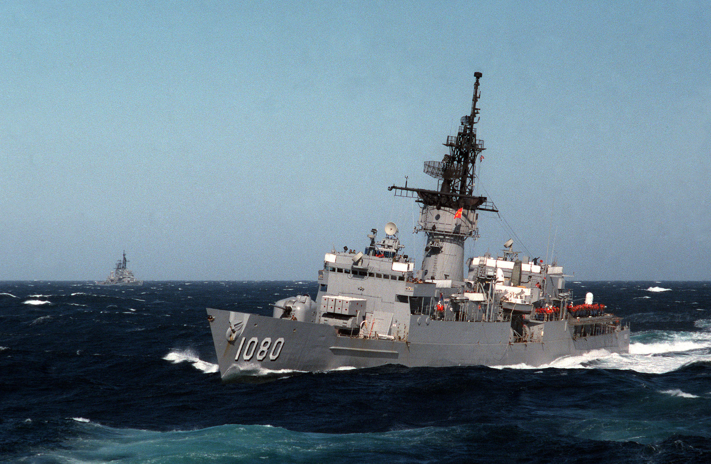 A port bow view of the frigate USS PAUL (FF 1080) rolling in a swell.